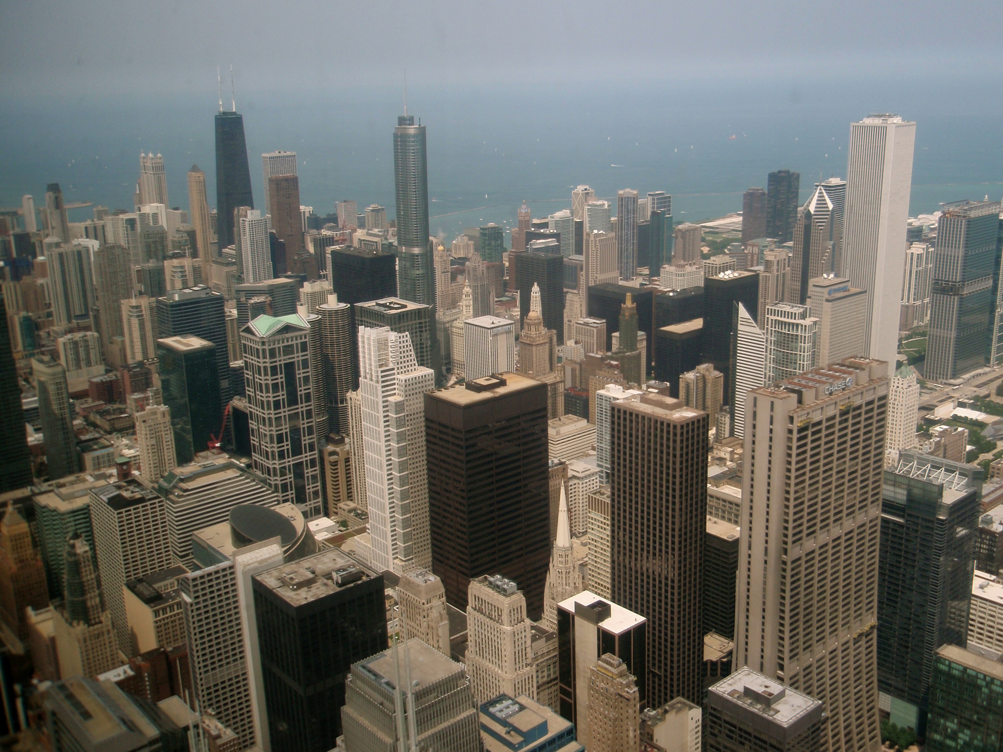 North view from the skydeck of Willis Tower during the day.